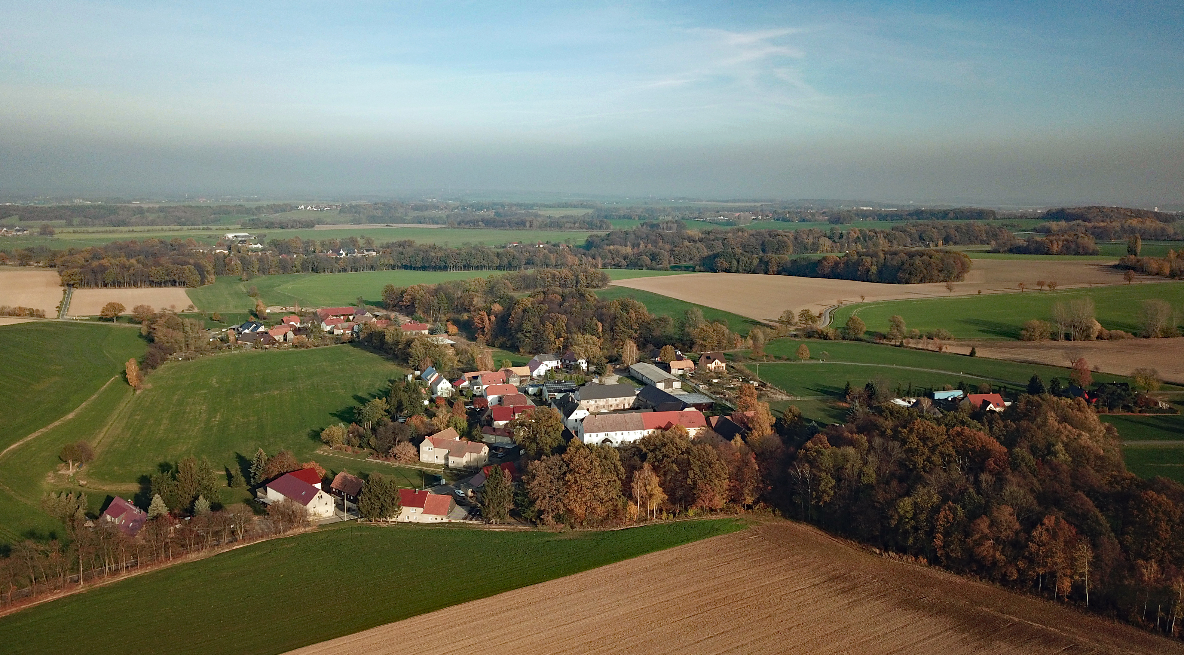 Oberuhna (Bautzen, Saxony, Germany) Hornjoserbsce: Powětrowy wobraz Hornjeho Wunjowa